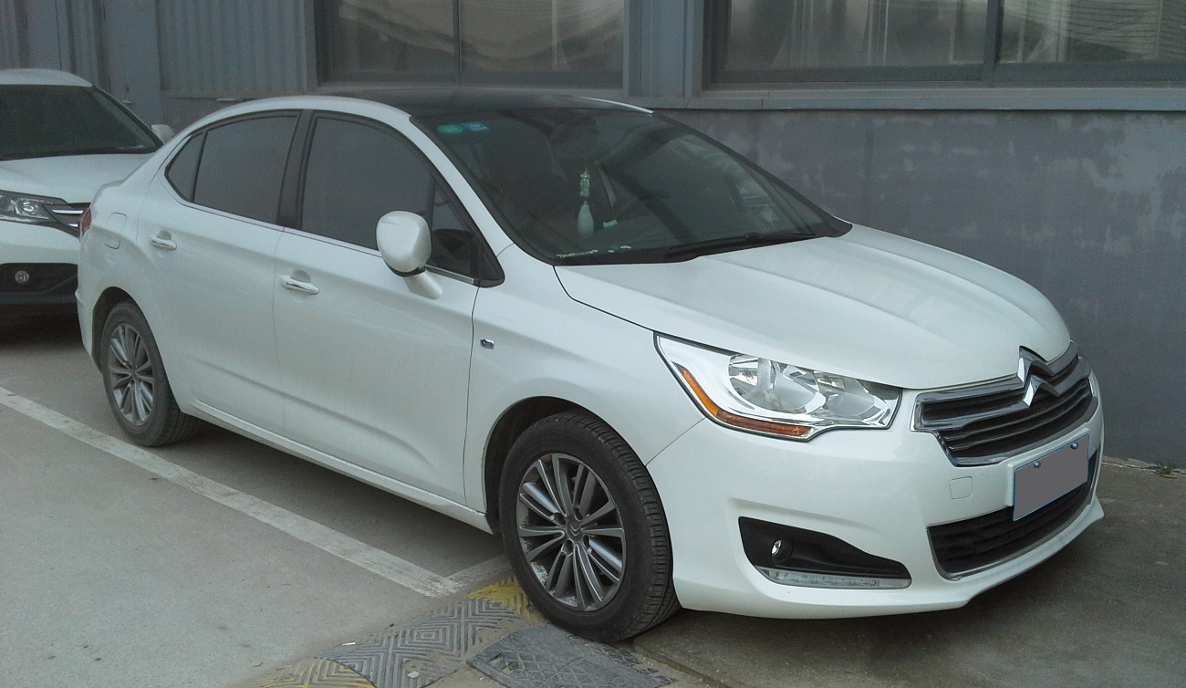 Citroën C4L photographed in Zhengzhou, Henan province, China.